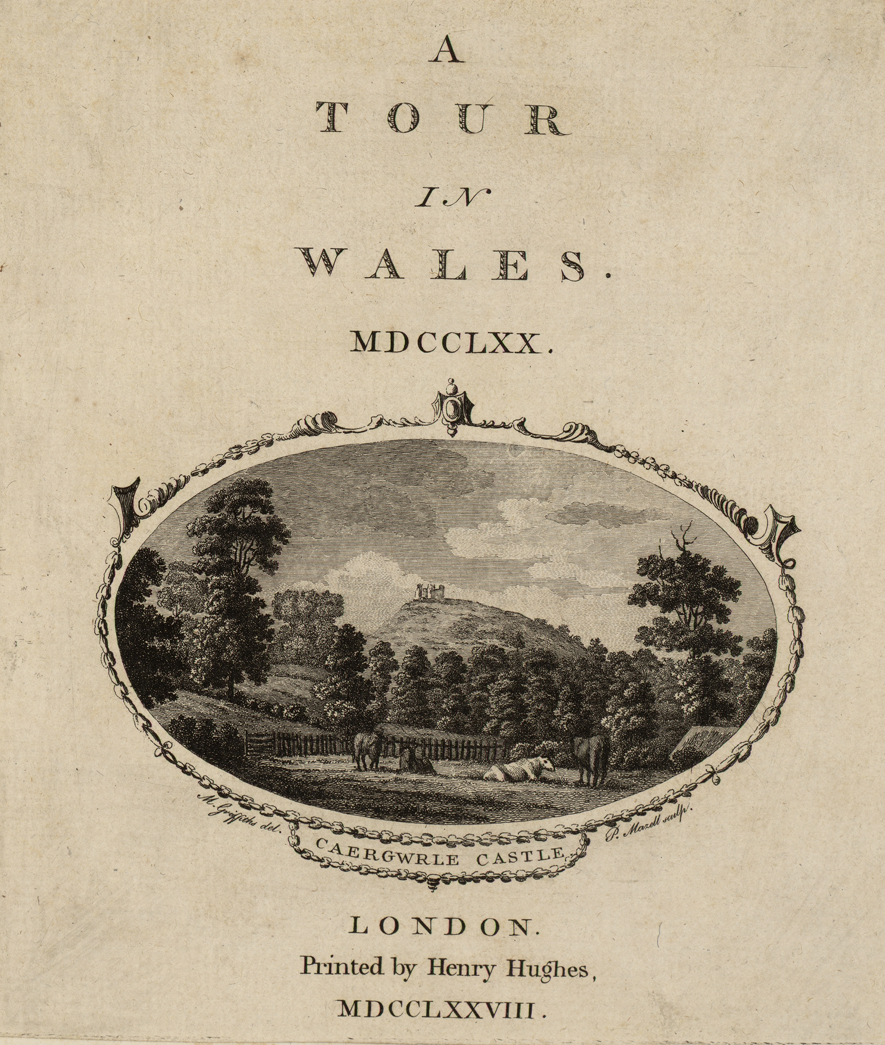 An image from a set of 8 extra-illustrated volumes of A tour in Wales by Thomas Pennant (1726-1798) that chronicle the three journeys he made through Wales between 1773 and 1776. These volumes are unique because they were compiled for Pennant's own library at Downing. This edition was produced in 1781. The volumes include a number of original drawings by Moses Griffiths, Ingleby and other well known artists of the period. Thomas Pennant (1726-1798)